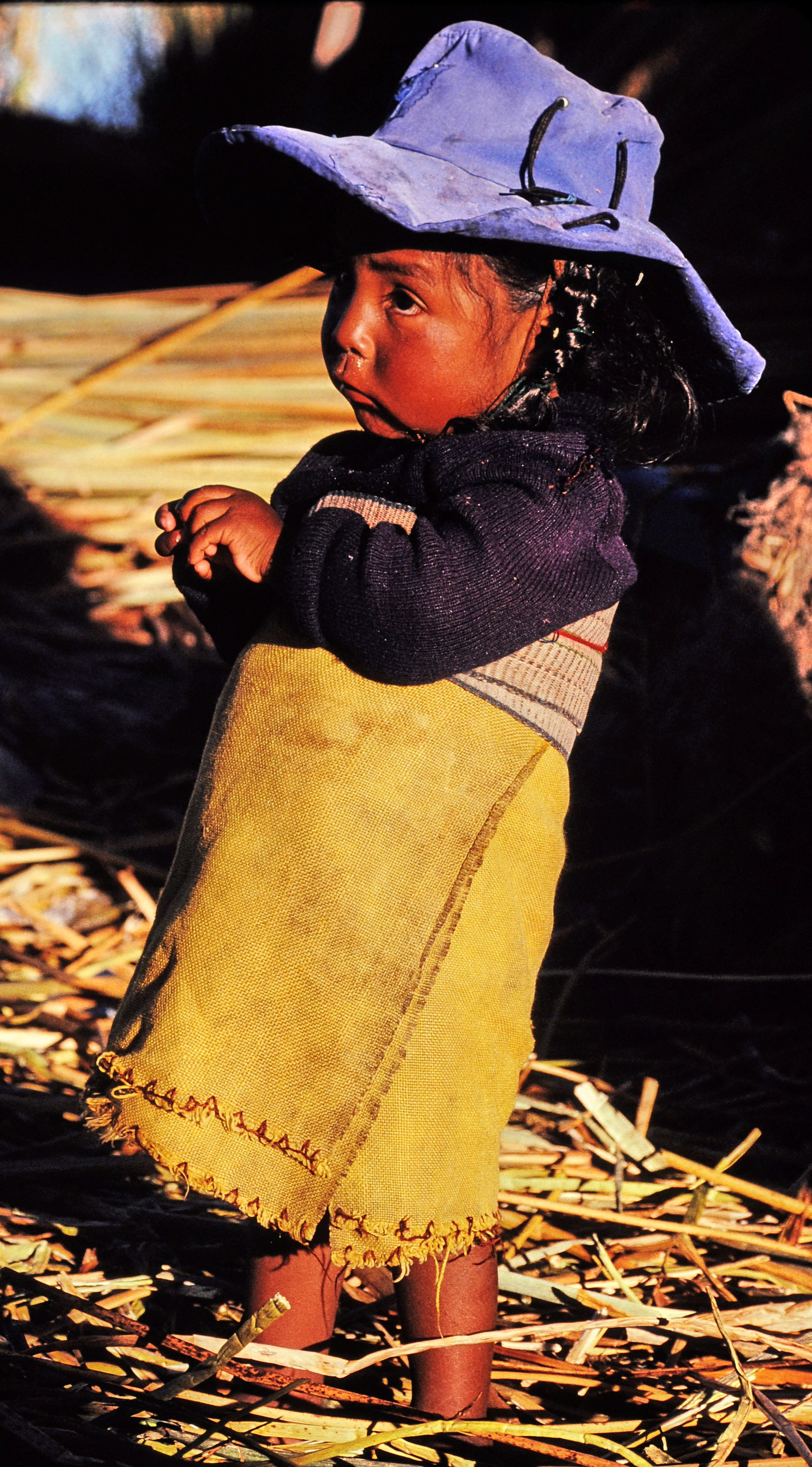 Little girl of the Uro people in Peru (Lake Titicaca)